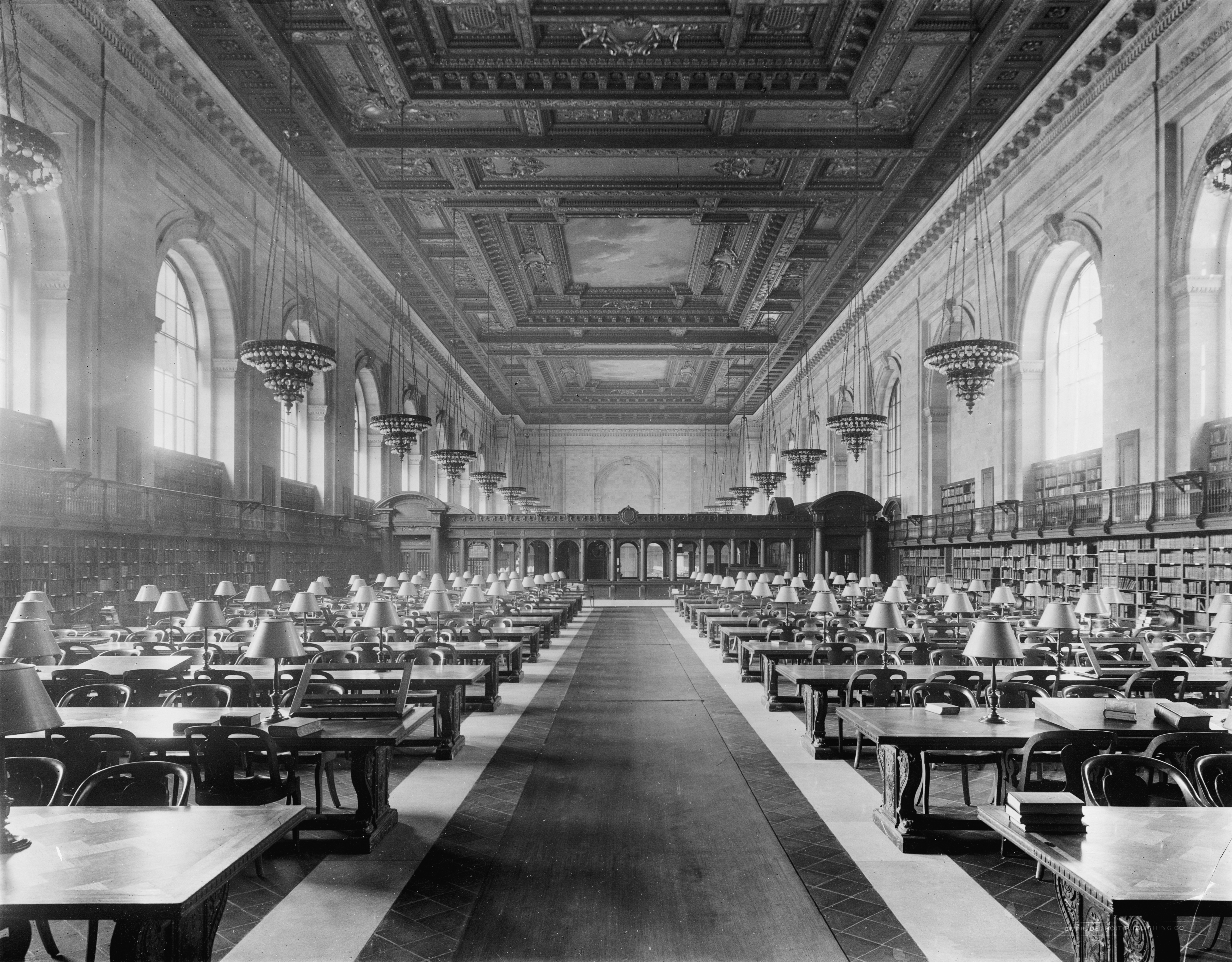 Main Reading Room of the New York City Public Library on 5th Avenue ca, 1910-1920